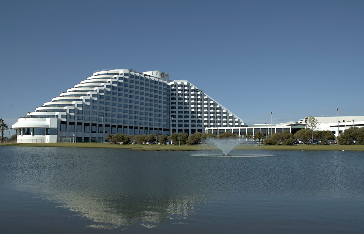 Burswood Resort and Casino.